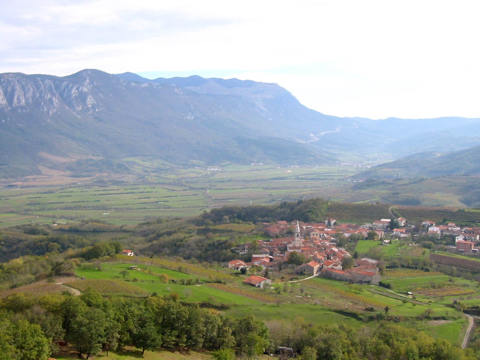 Goče, village in Slovenia (behind is mount Nanos) photo:Ziga 09:12, 14 April 2007 (UTC)